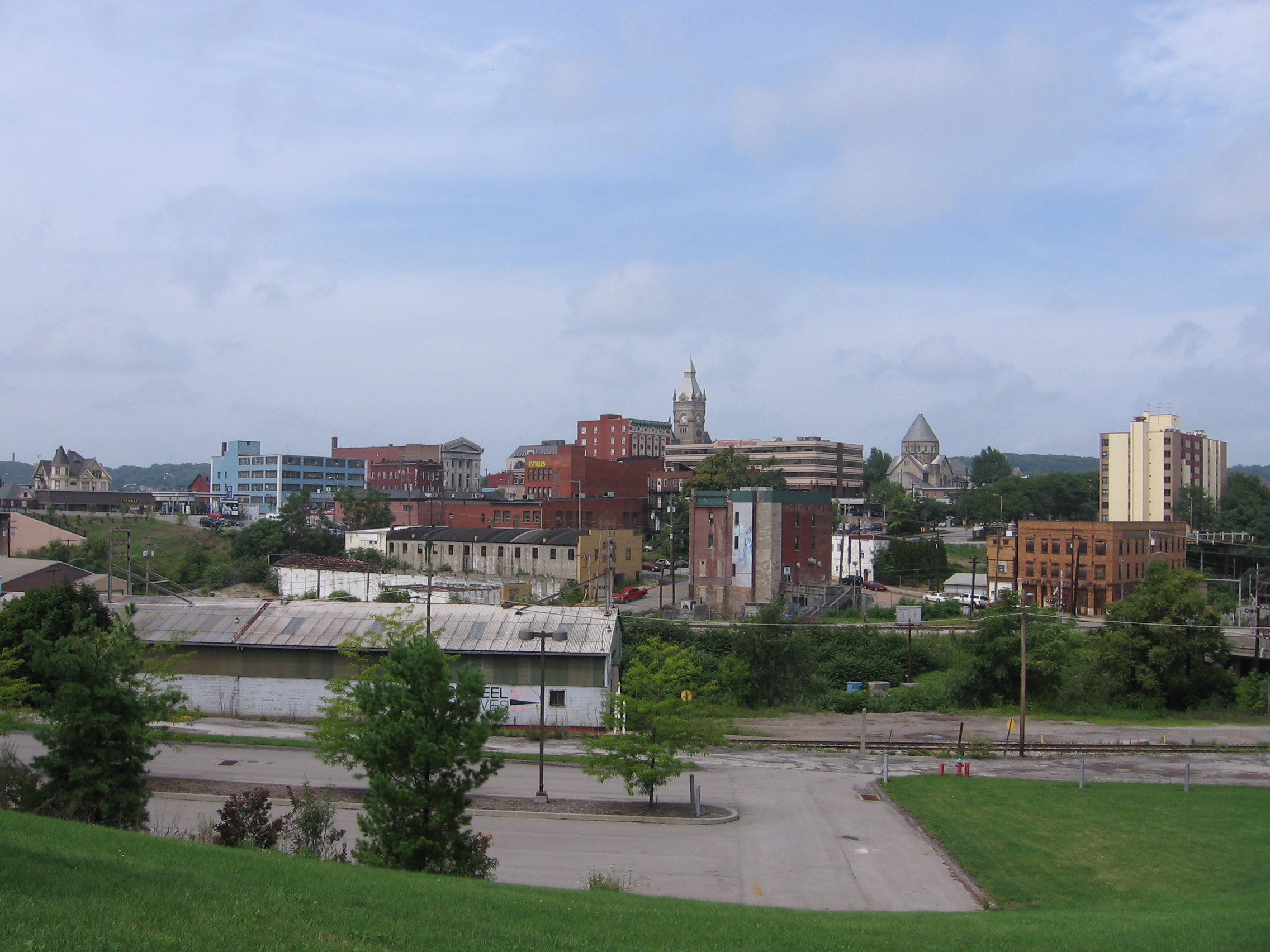 The Butler skyline seen from the southside of the city.